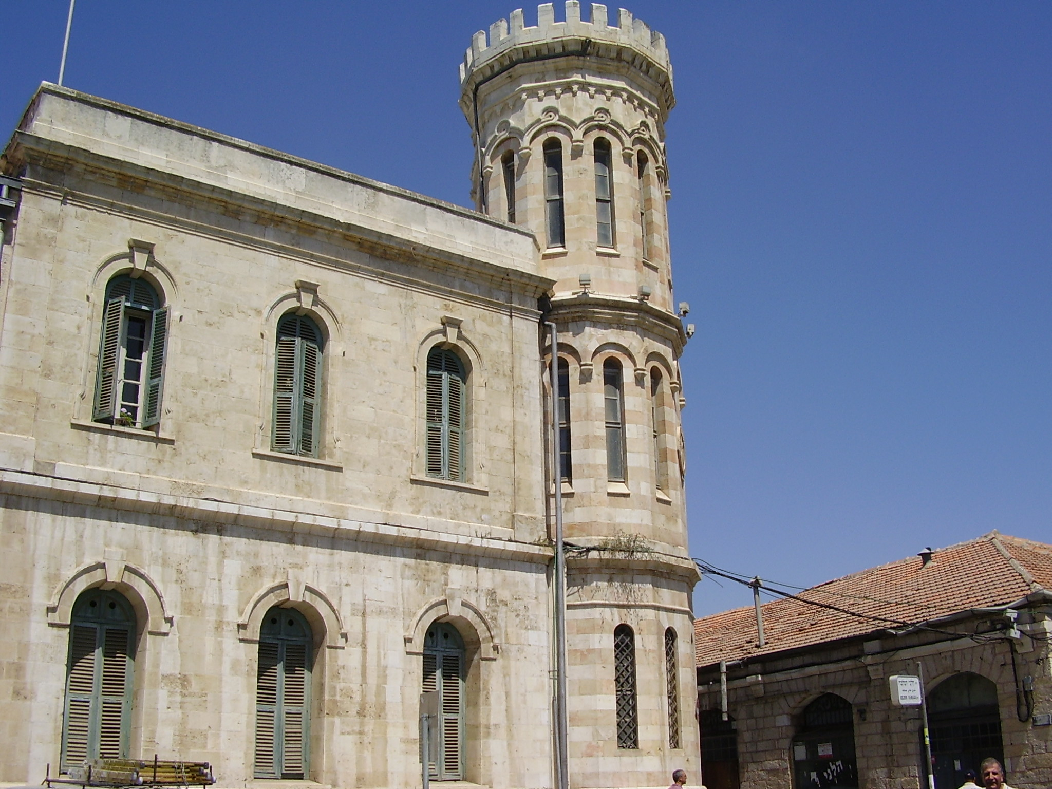 sergei building in jerusalem in the Russian Compound